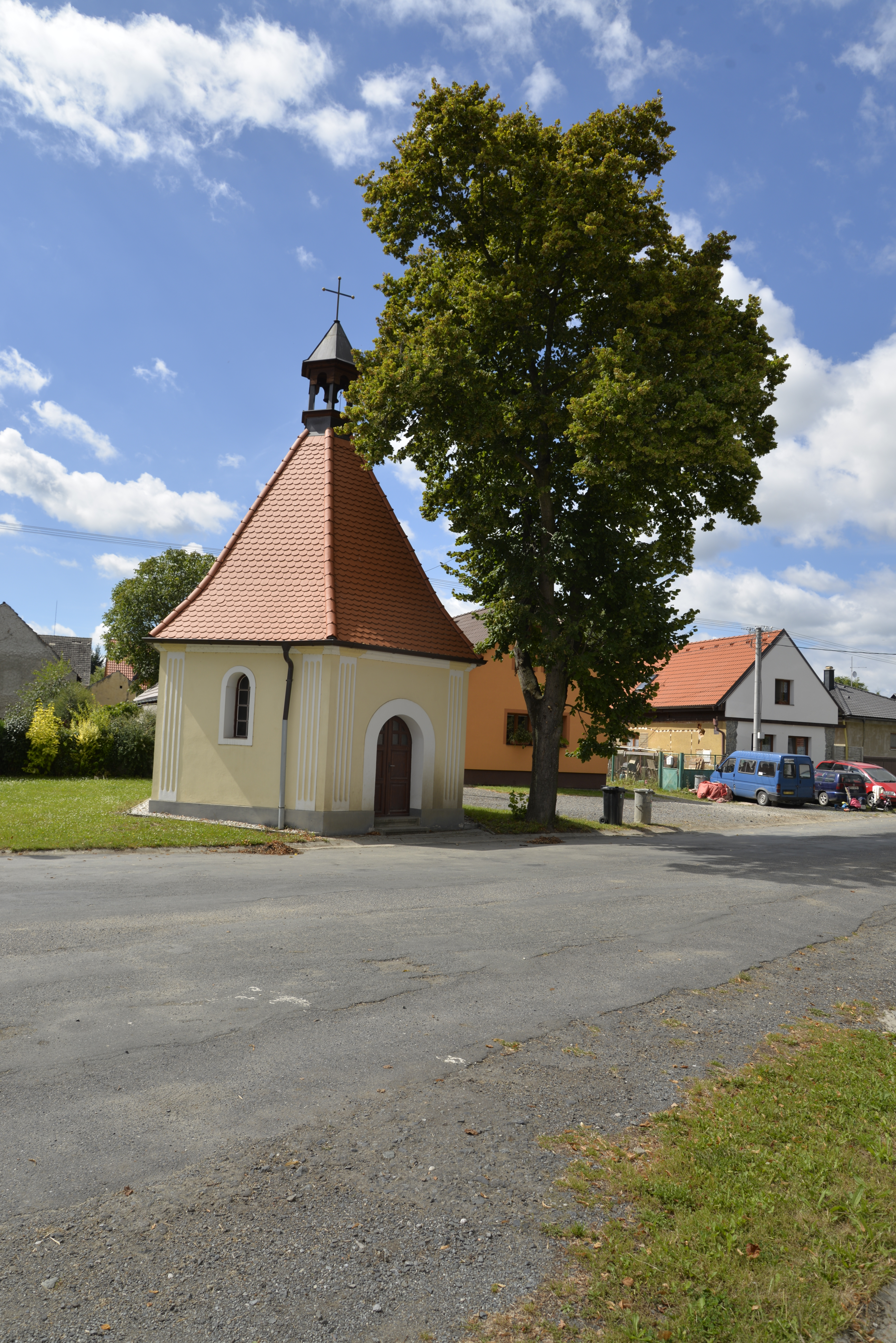 Žerovice - village, part of city Přeštice in Plzeň-jih District